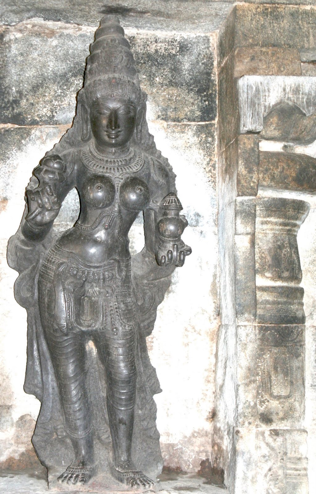 ~ Mohini w jar of Amrit ~ Darasuram, Kumbakonam, TN